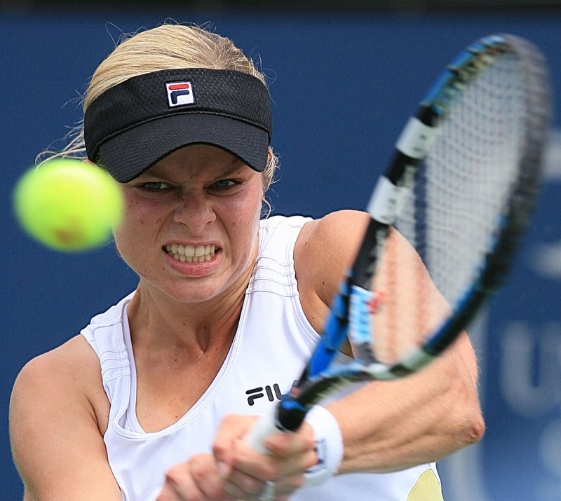 The 2006 Acura Classic, Kim Clijsters